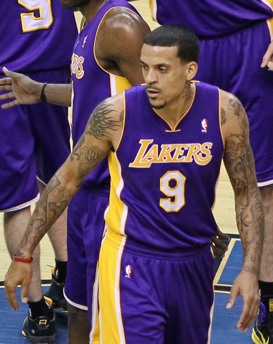 Washington Wizards v/s Los Angeles Lakers December 14, 2010